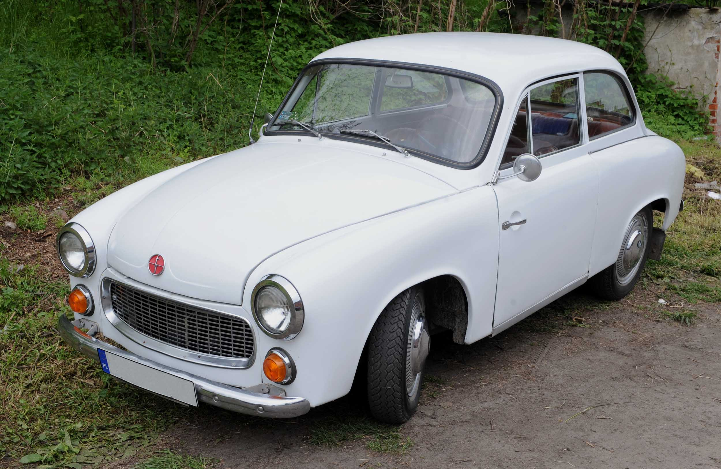 Car Syrena 104